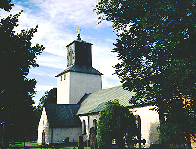 Spanga church